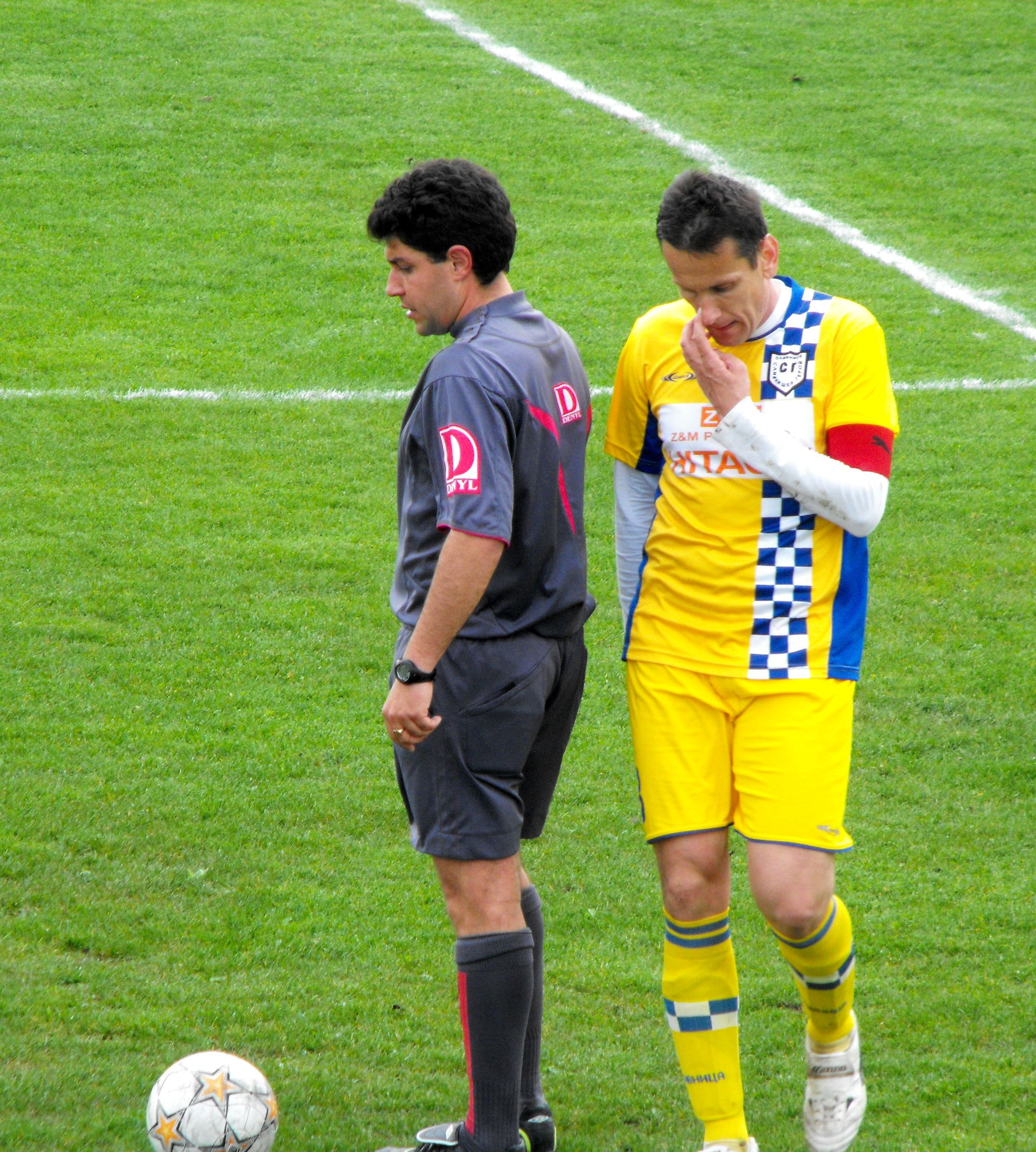 Nuslan Natzev - Bulgarian soccer player